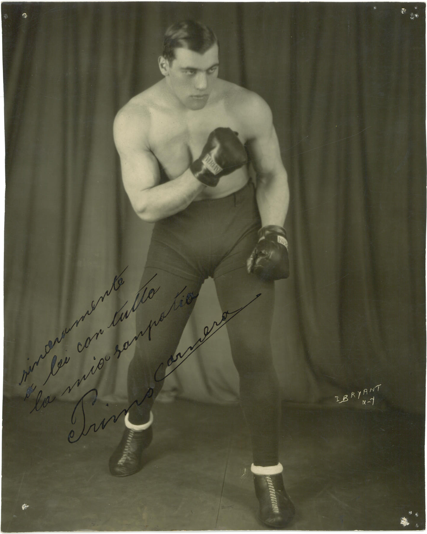 Photograph of Primo Carnera signed for Raoul Paoli